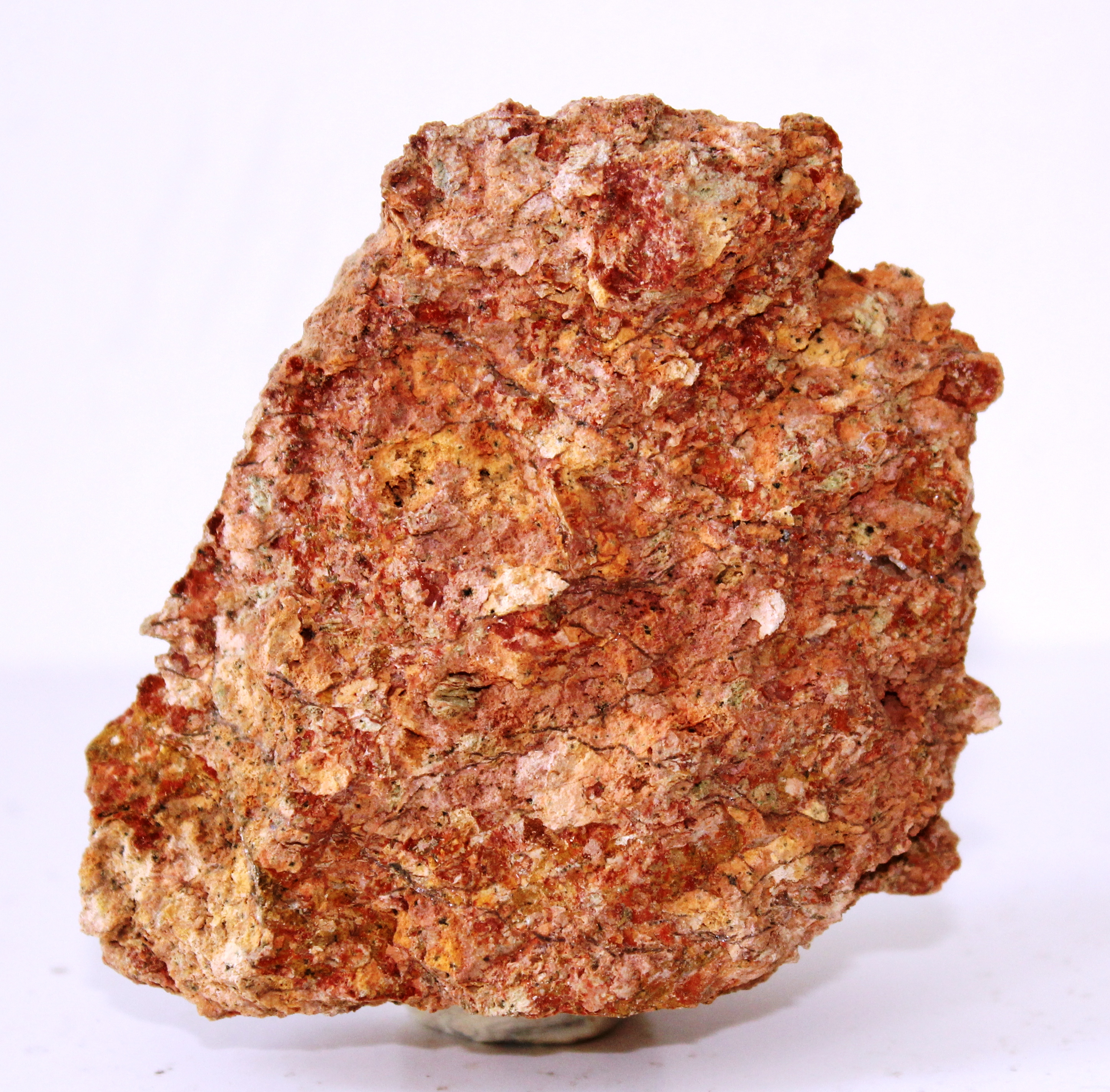 Hand specimen of Listwanite from Oman, 25 south of Seeb